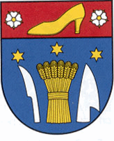 Coat of arm of Partizánske